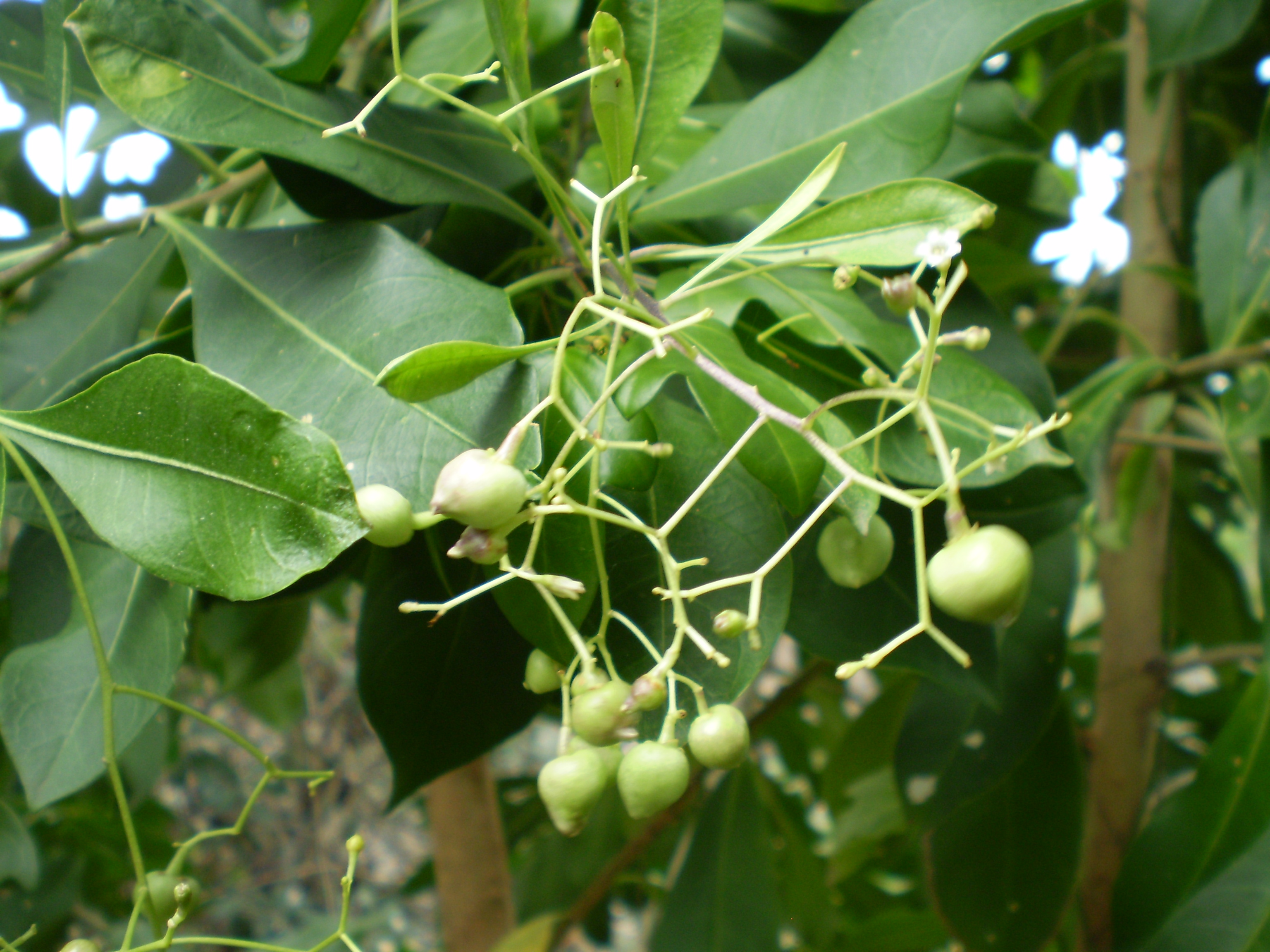 Duboisia myoporoides (Corkwood), flower and immature fruit. Ballina, New South Wales, Australia.